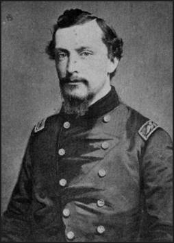 Photo of Isaac J. Wistar (1827-1905)